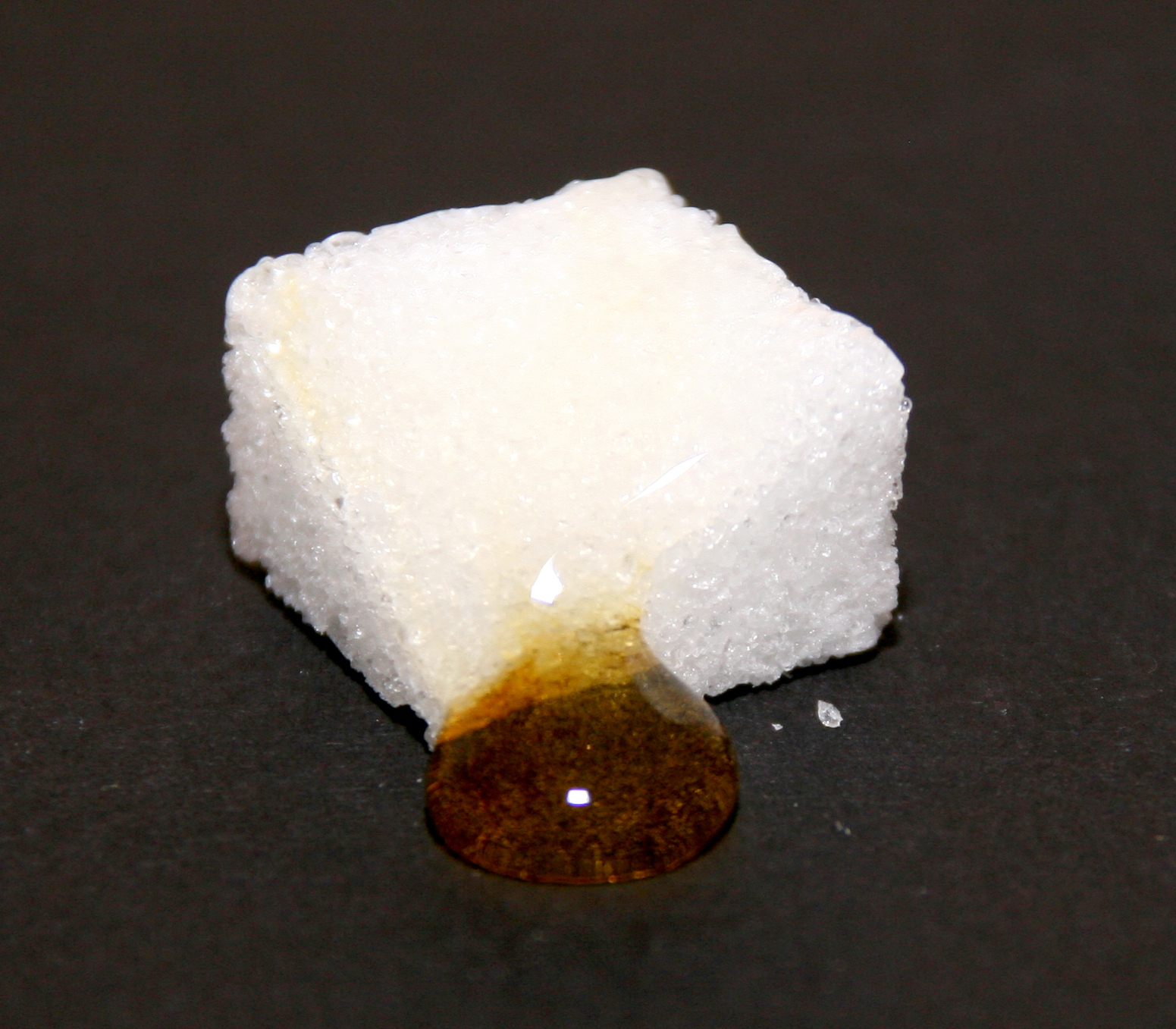 Partially caramelised cube sugar